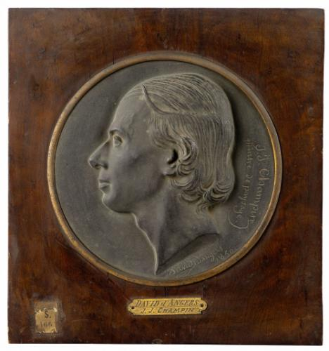 Portrait of the artist Jean-Jacques Champin (1796-1860)